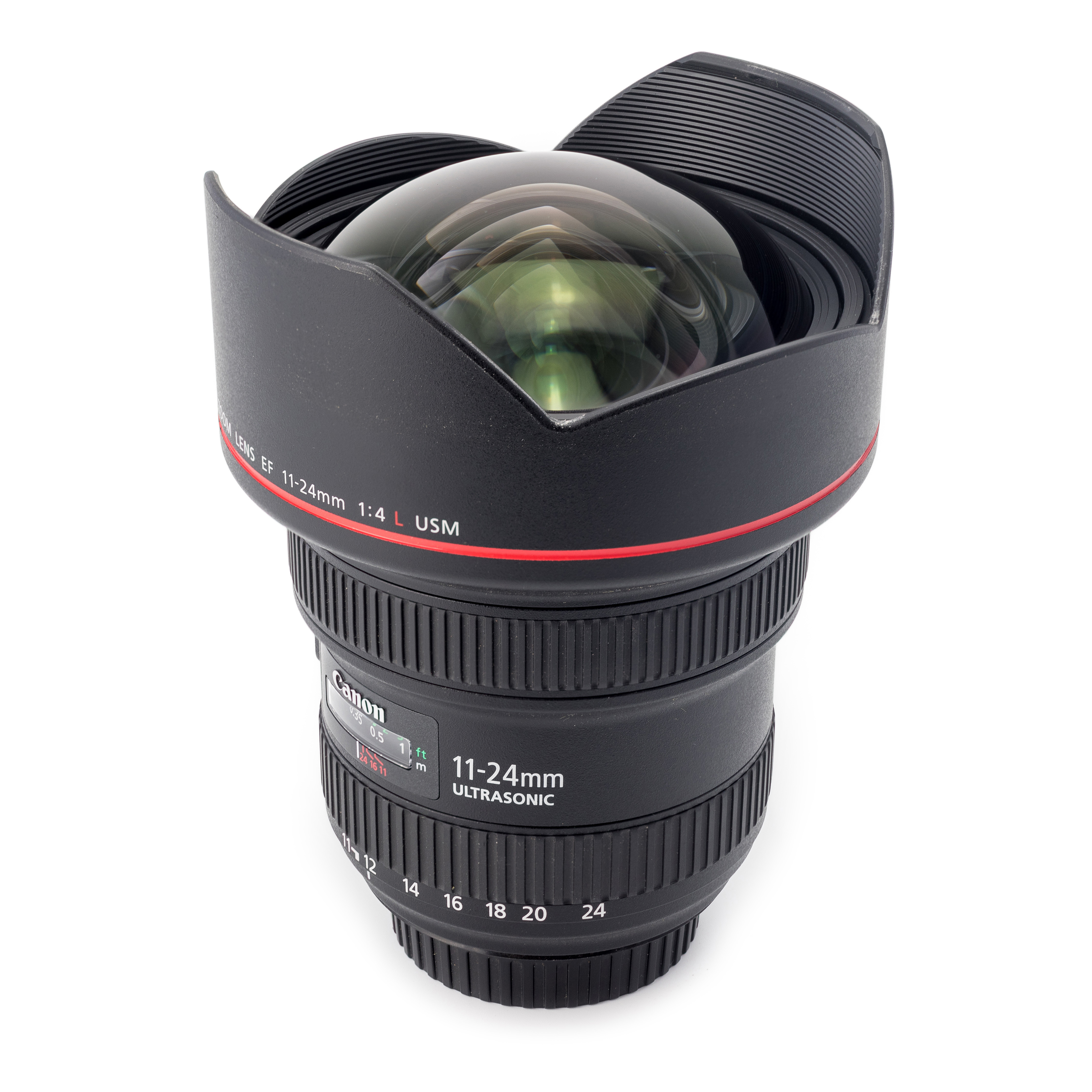 Canon EF 11-24mm F4L USM - Photo lens